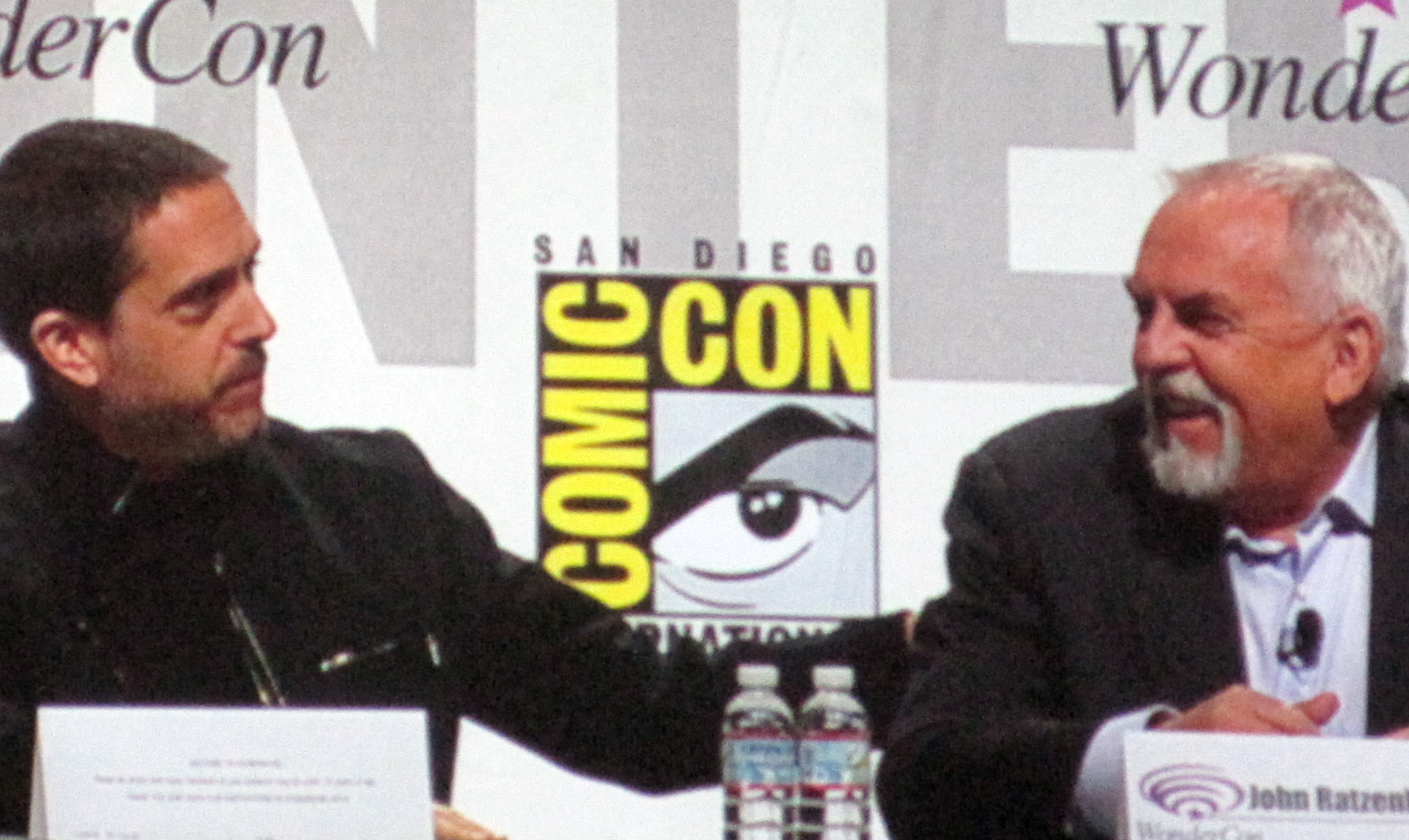 Director Lee Unkrich and actor John Ratzenberger participating in the Toy Story 3 panel at WonderCon 2010.